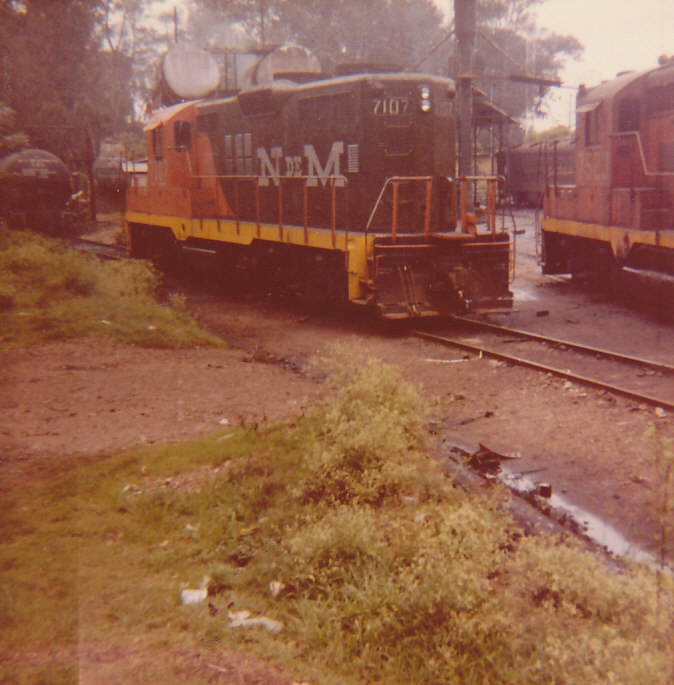 An EMD GP9 locomotive 7107, in Uruapan station circa 1983. Of the Ferrocarriles Nacionales de México system, in Michoacán state, southwest México.